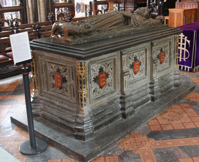 King John's Tomb, Worcester Cathedral Set before the high altar, his tomb is made of dark Purbeck marble topped with an effigy. When King John lay dying of his famous "surfeit of peaches" in 1216, he asked to be buried in Worcester Cathedral.